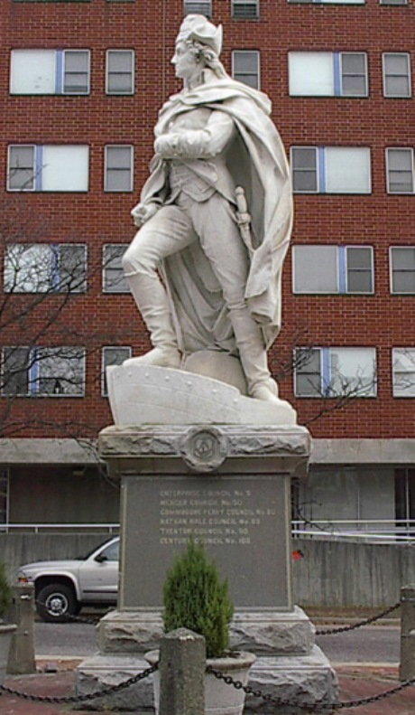 George Washington (circa 1876), by Mahlon Dickerson Eyre, Montgomery Plaza, Trenton, New Jersey. The sculpture was exhibited at the 1876 Centennial Exposition in Philadelphia, Pennsylvania.